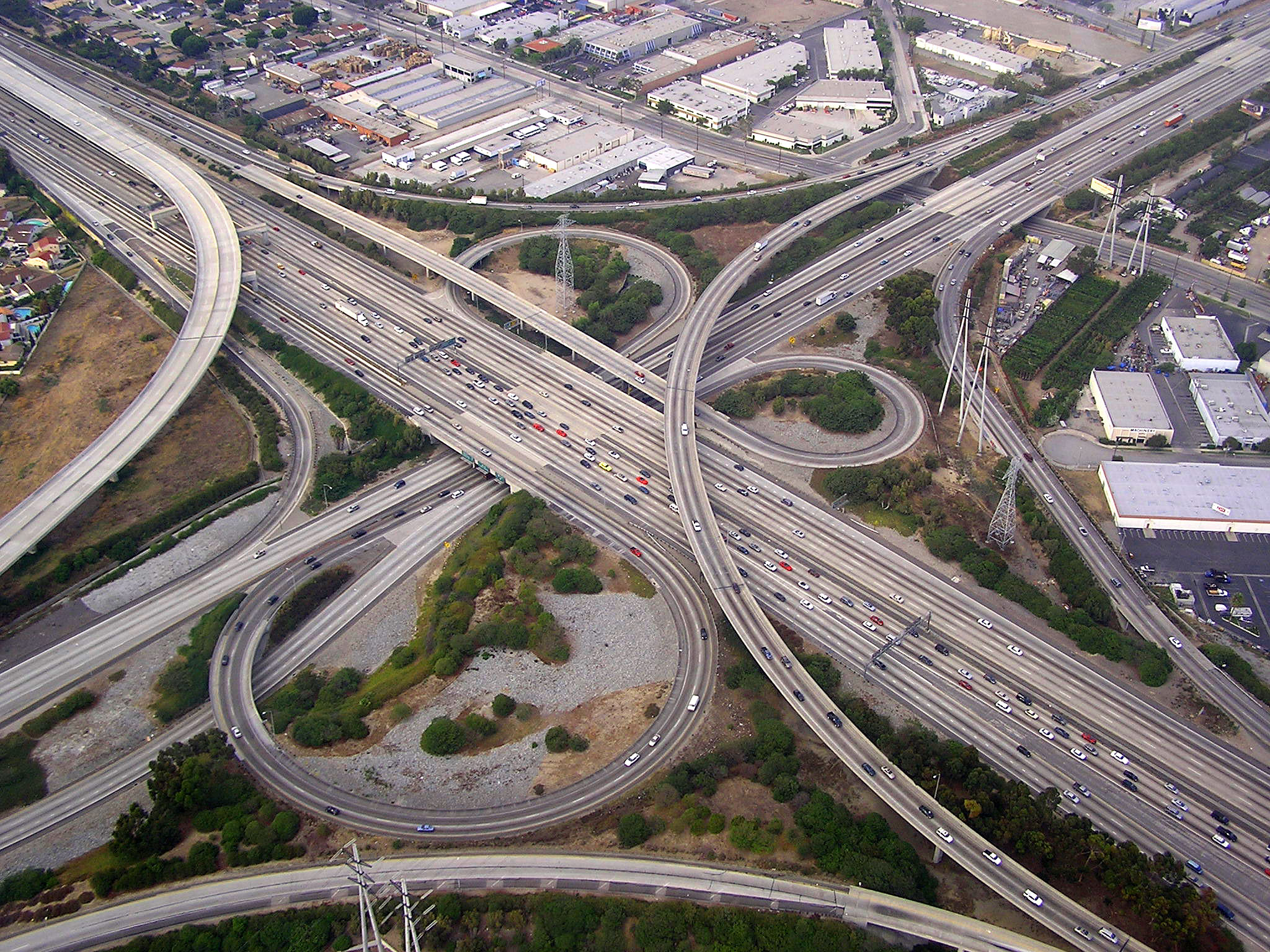 110 to 91 interchange